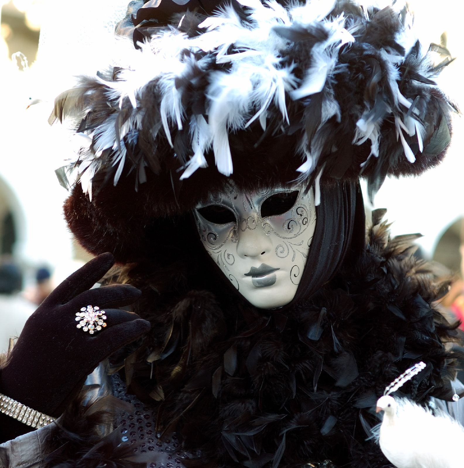 Carnival of Venice.